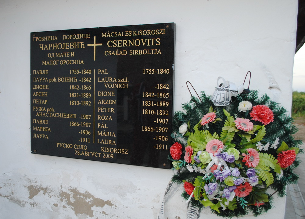 Names of the members of Carnojevic Family, burried in the Mausoleum. The Mausoleum is Cultural Heritage of Serbia. Grobnica je svrstana u nepokretno kulturno dobro od velikog znacaja.